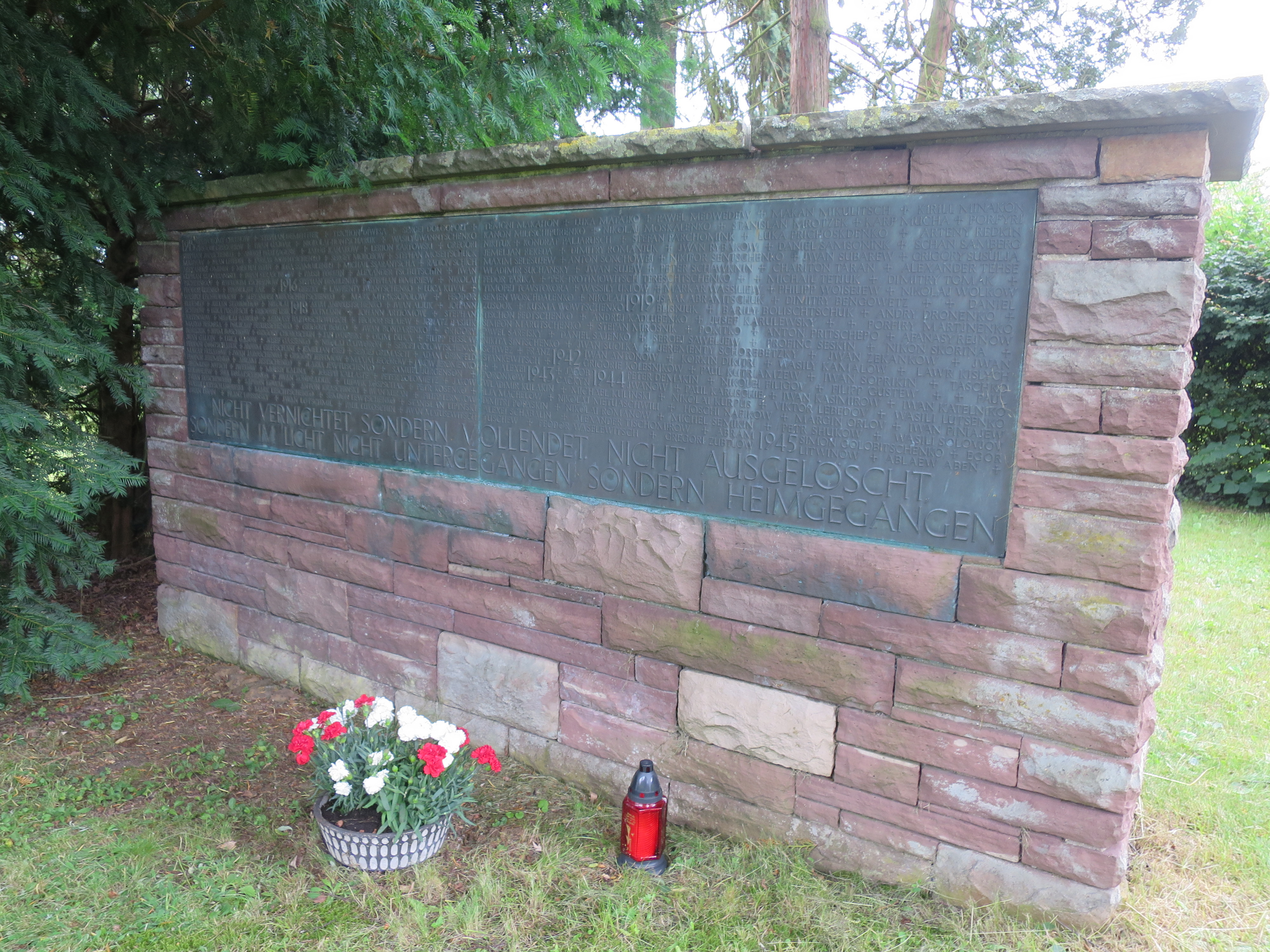 Prisoners of war cemetery in Wetzlar-Büblingshausen